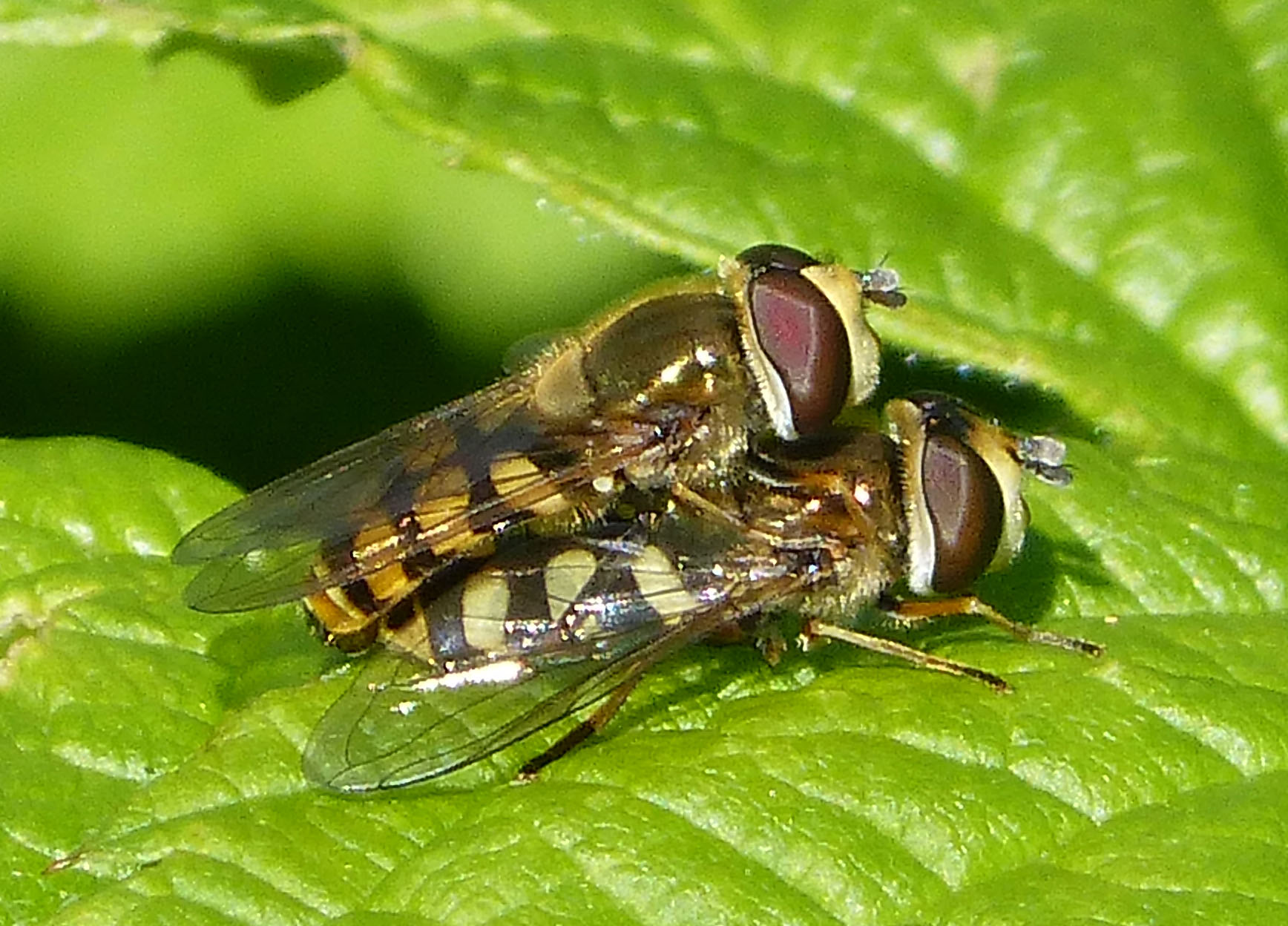 Cradley, Malvern, Worcs, SO7347